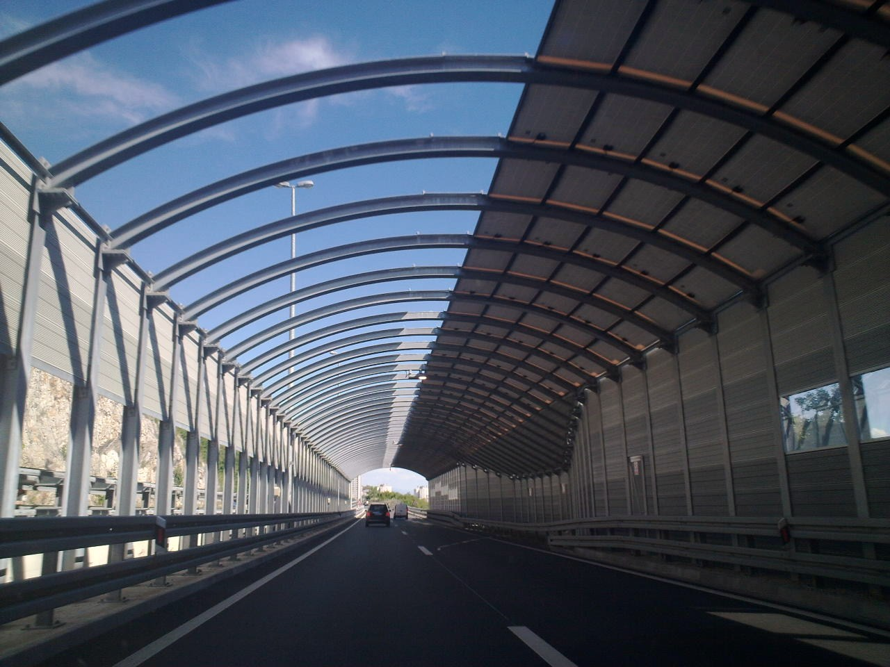 The Croatian A7 motorway near Rijeka, which is fully enclosed by noise barriers (pictured) covered by 1,155 solar panels. The motorway is 40 metres away from residential buildings.